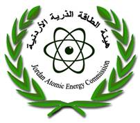 Logo of the Jordan Atomic Energy Commission